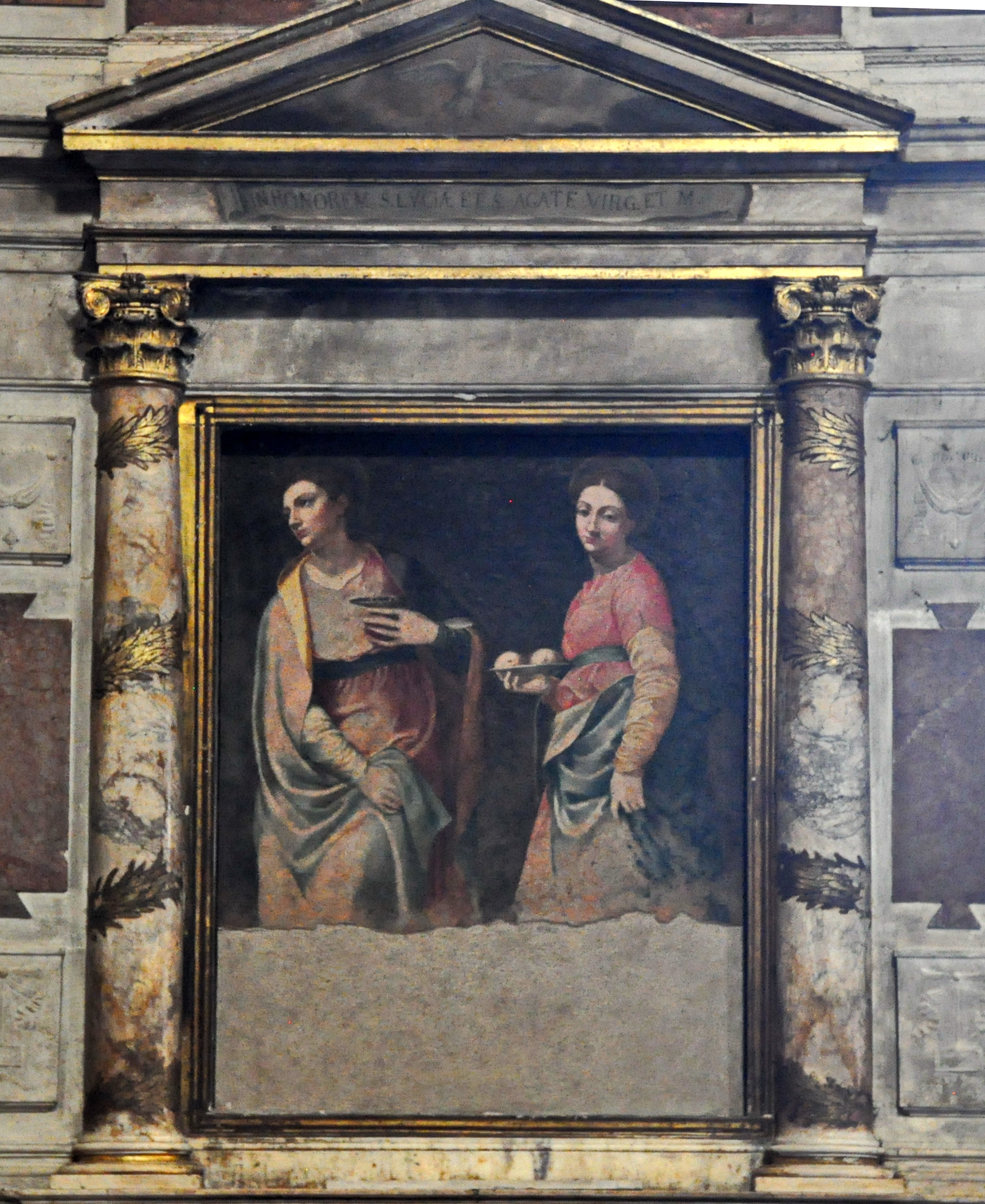 Santa Maria sopra Minerva (Rome), Altar St Lucia and Agata